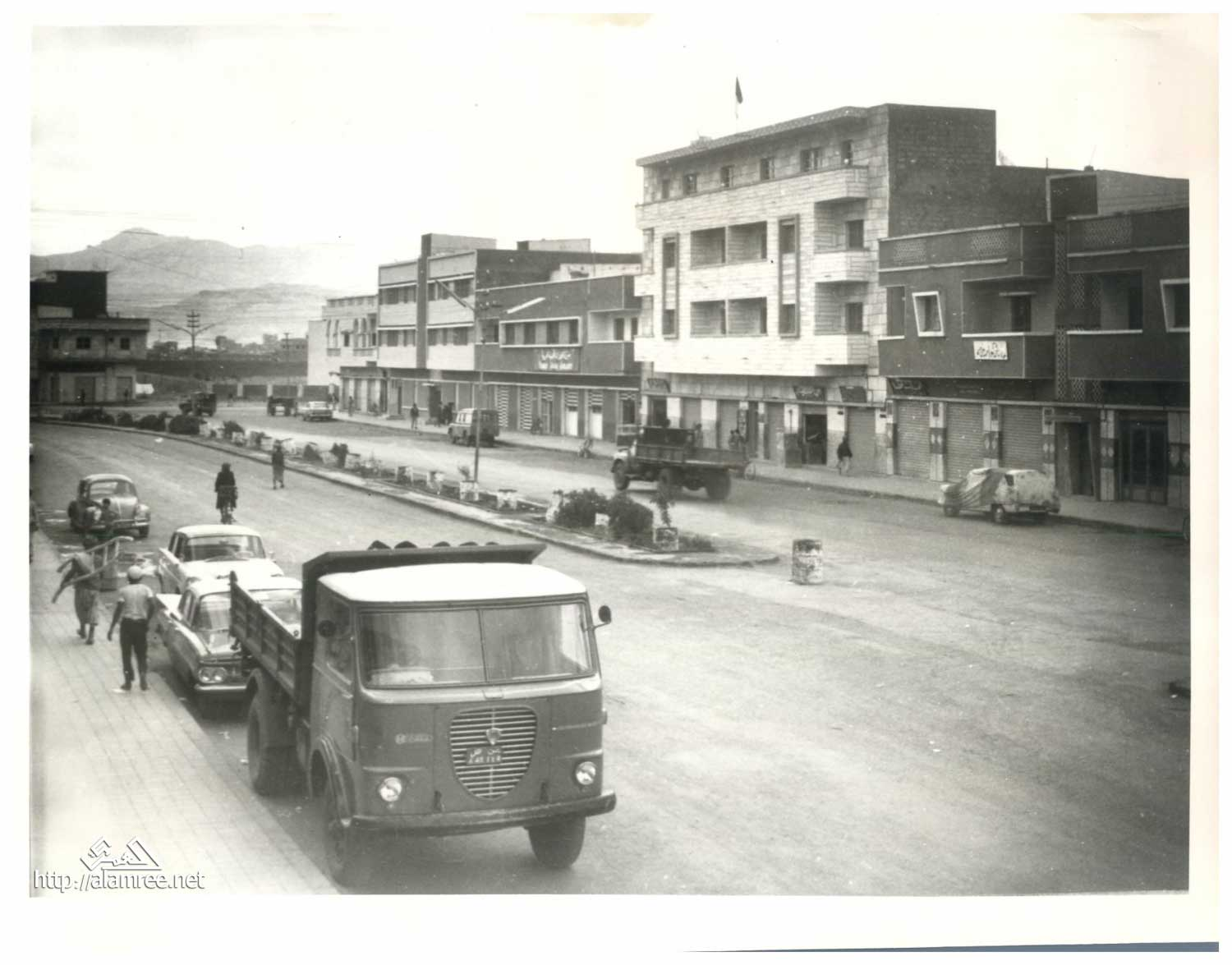 Tahrir Street in Sana'a in 1967